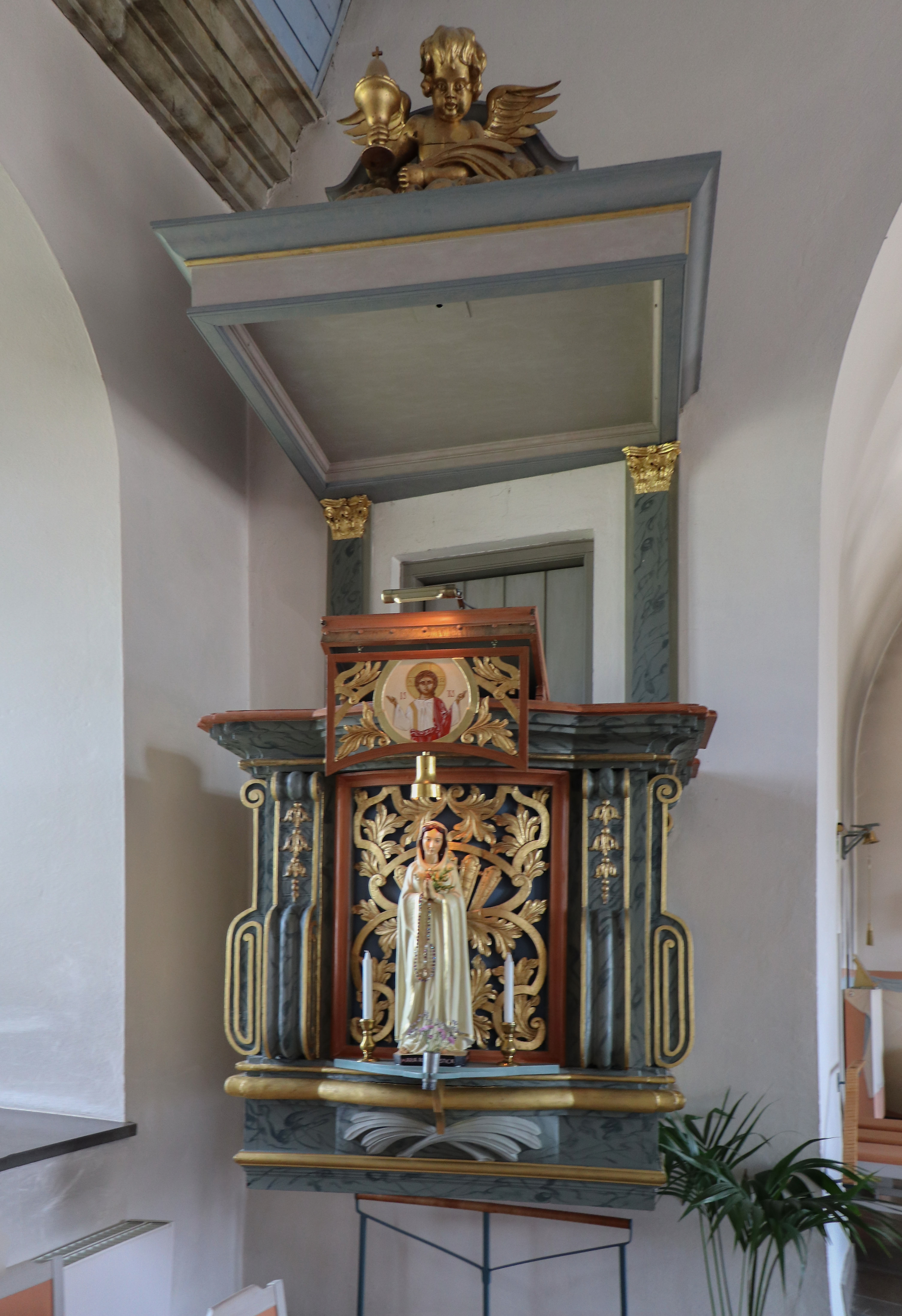 Mörbylånga Church. The pulpit basket was carved by Anders Dahlström the elder in 1747. The canopy from 1966 is decorated with sculptur from 1931 by G Th Karlsson.